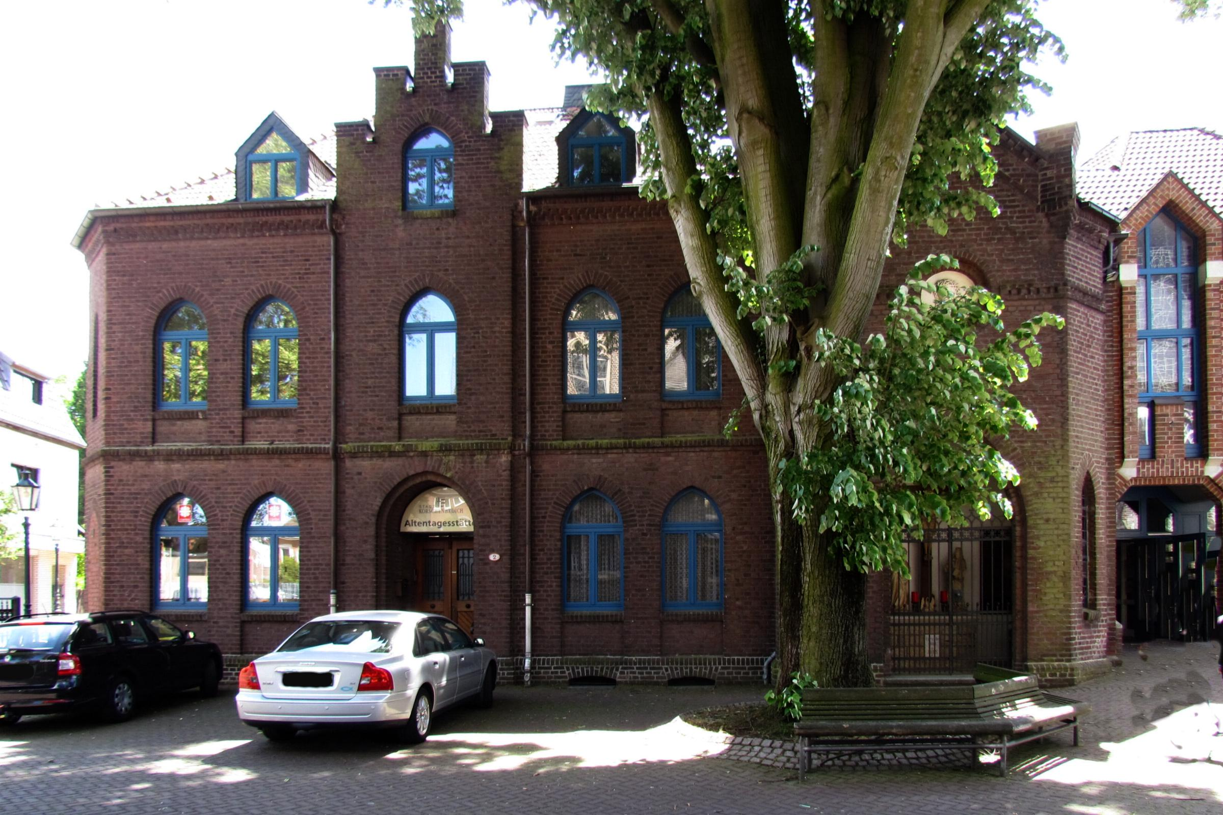 This is a photograph of an architectural monument.It is on the list of cultural monuments of Korschenbroich